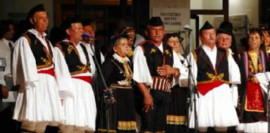 Picture of the 2007 folk festival of Dervitsian in Southern Albania